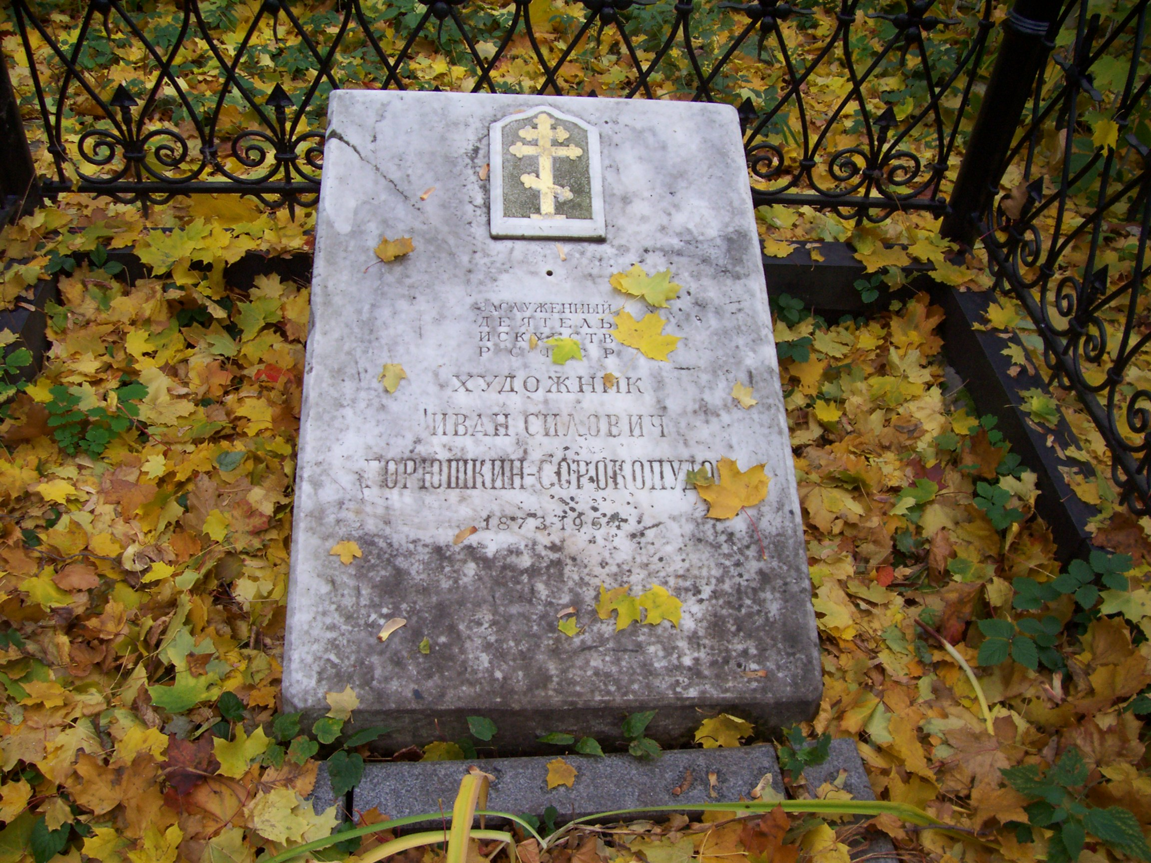 Grave of artist Ivan Silych Goryushkin-Sorokopudov (1873-1954), Saint Mitrofan Cemetery, Penza